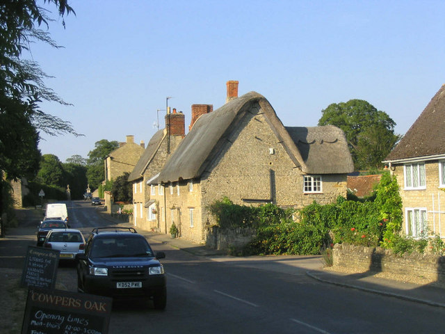 Weston Underwood. This picturesque village is located just a few miles west of Olney, and is a frequent winner of awards for Best Kept Village. It was the home of poet William Cowper from 1785 to 1795 and close to the village, overlooking the countryside, stands The Alcove where Cowper mused and spent much of his time writing.